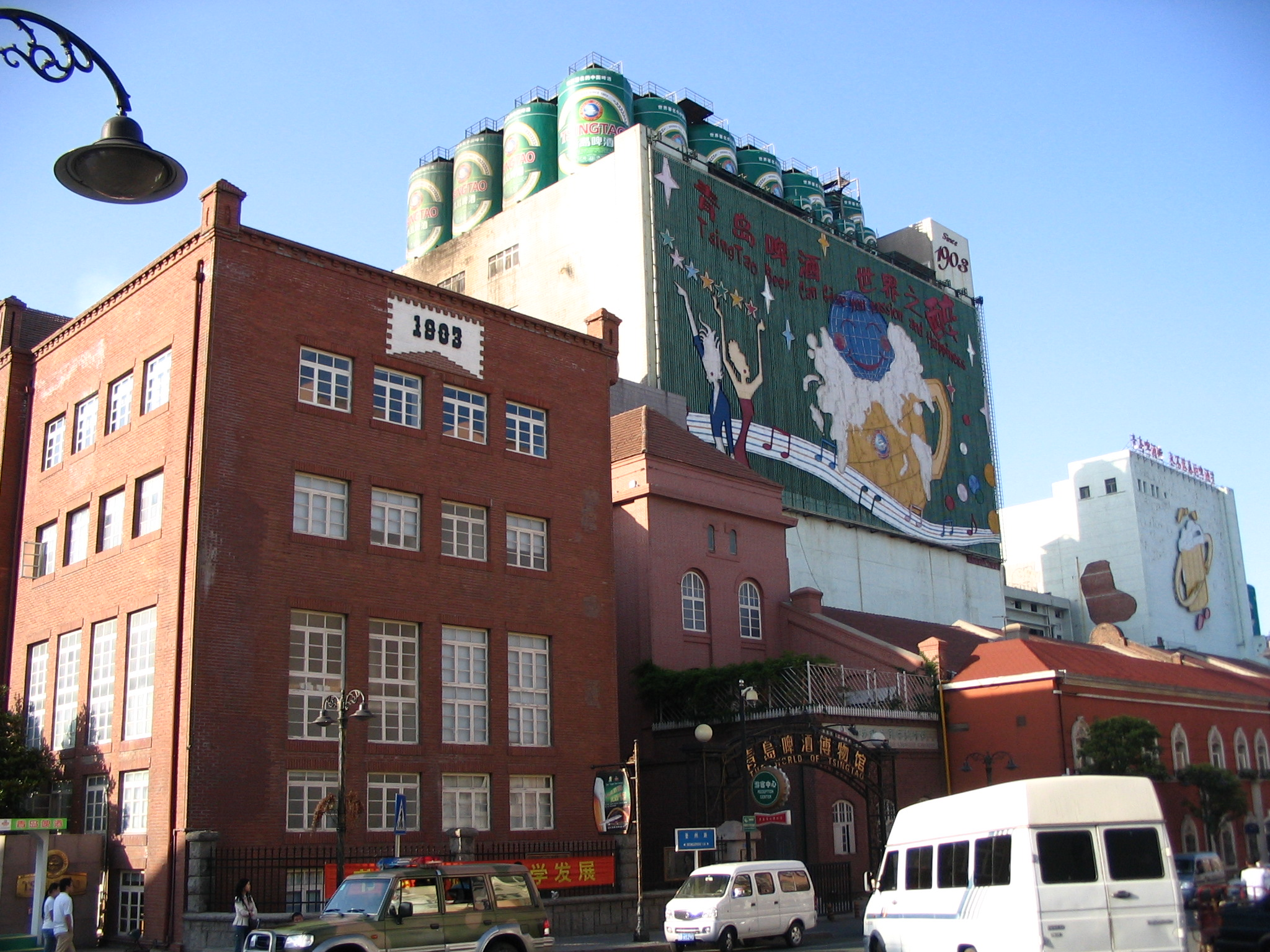 Tsingtao Brewery in Qingdao